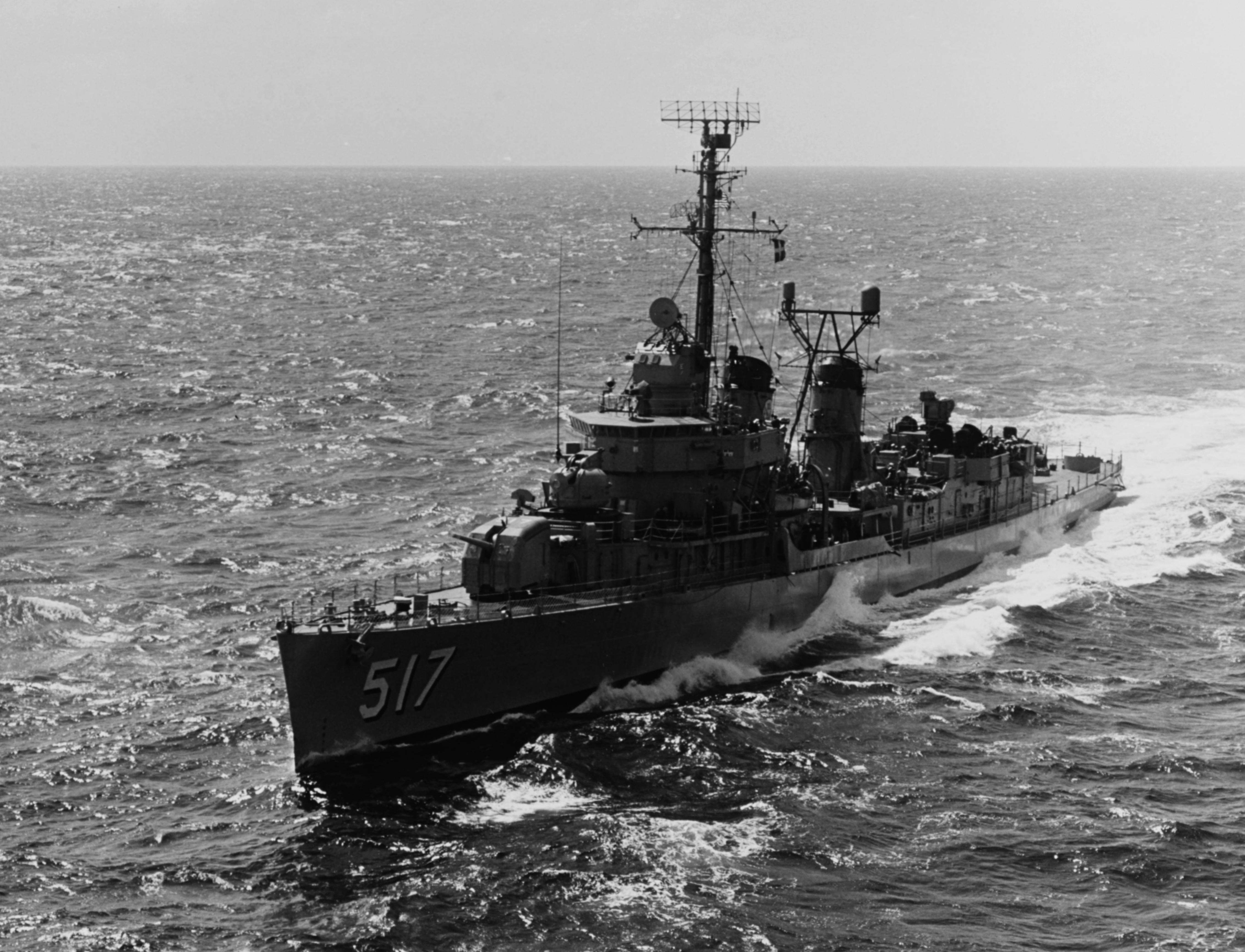 The U.S. Navy destroyer USS Walker (DD-517) coming alongside the aircraft carrier USS Yorktown (CVS-10), out of view, on 7 February 1965. Yorktown, with assigned Carrier Anti-Submarine Air Group 55 (CVSG-55), was deployed to the Western Pacific and Vietnam from 22 October 1964 to 17 May 1965.